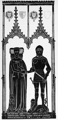 Monumental brass of Thomas de Camoys, 1st Baron Camoys (d.1421), St George's Church, Trotton, Sussex. Probably as published in Dallaway's Rape of Chichester, p.224.